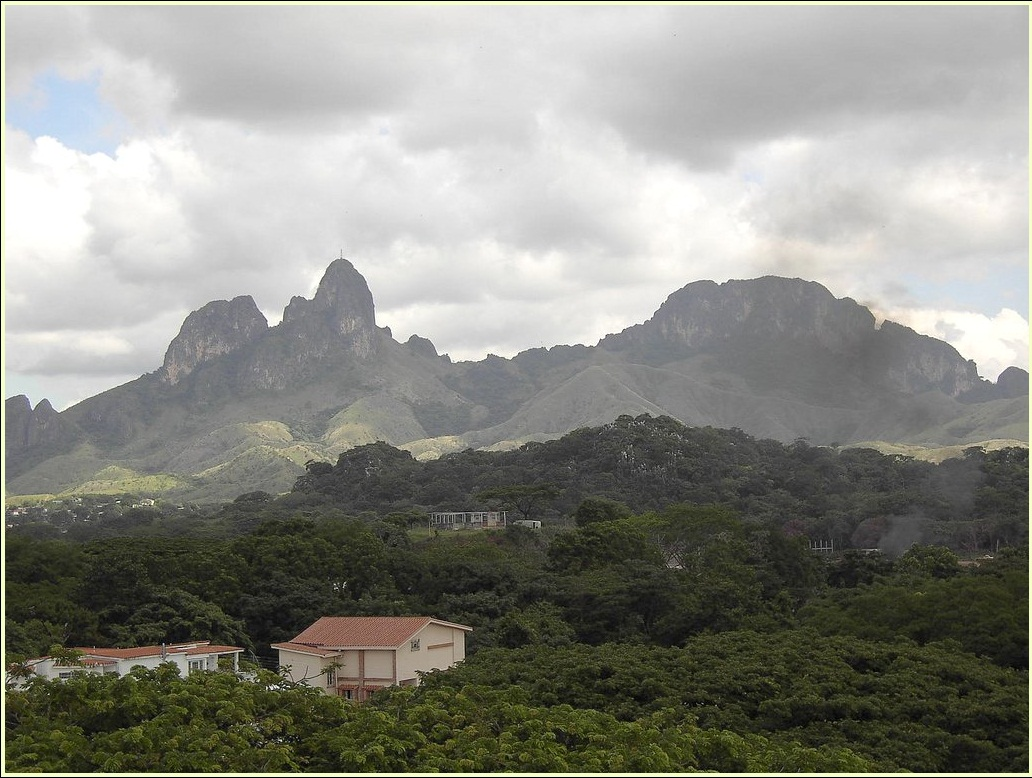 San Juan Hills, Guárico, Venezuela.